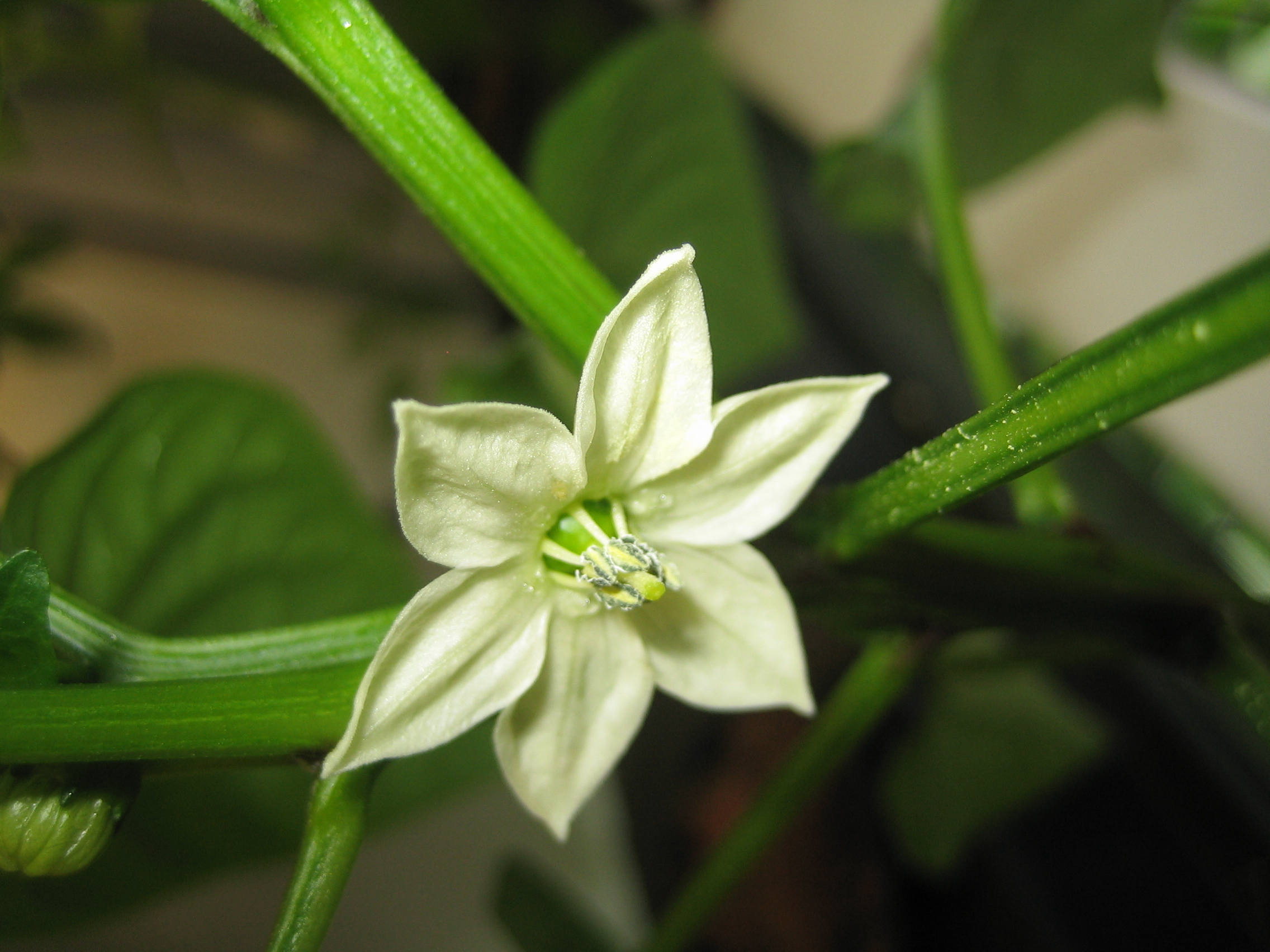 A recently blossomed flower on a Quadrato d'Asti Giallo bell pepper plant.